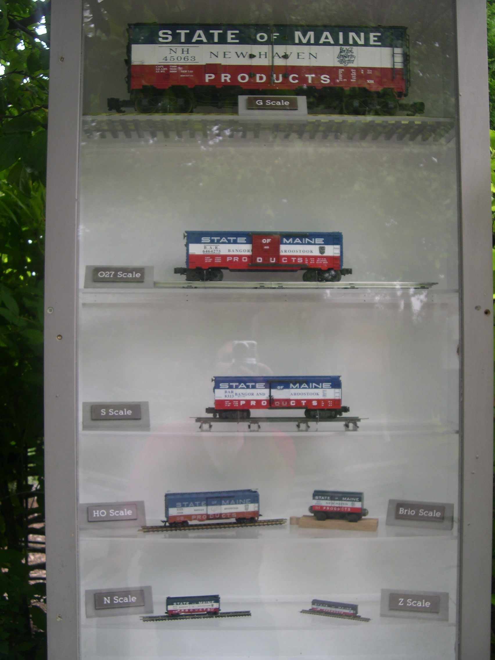 Comparing rail transport modelling scales